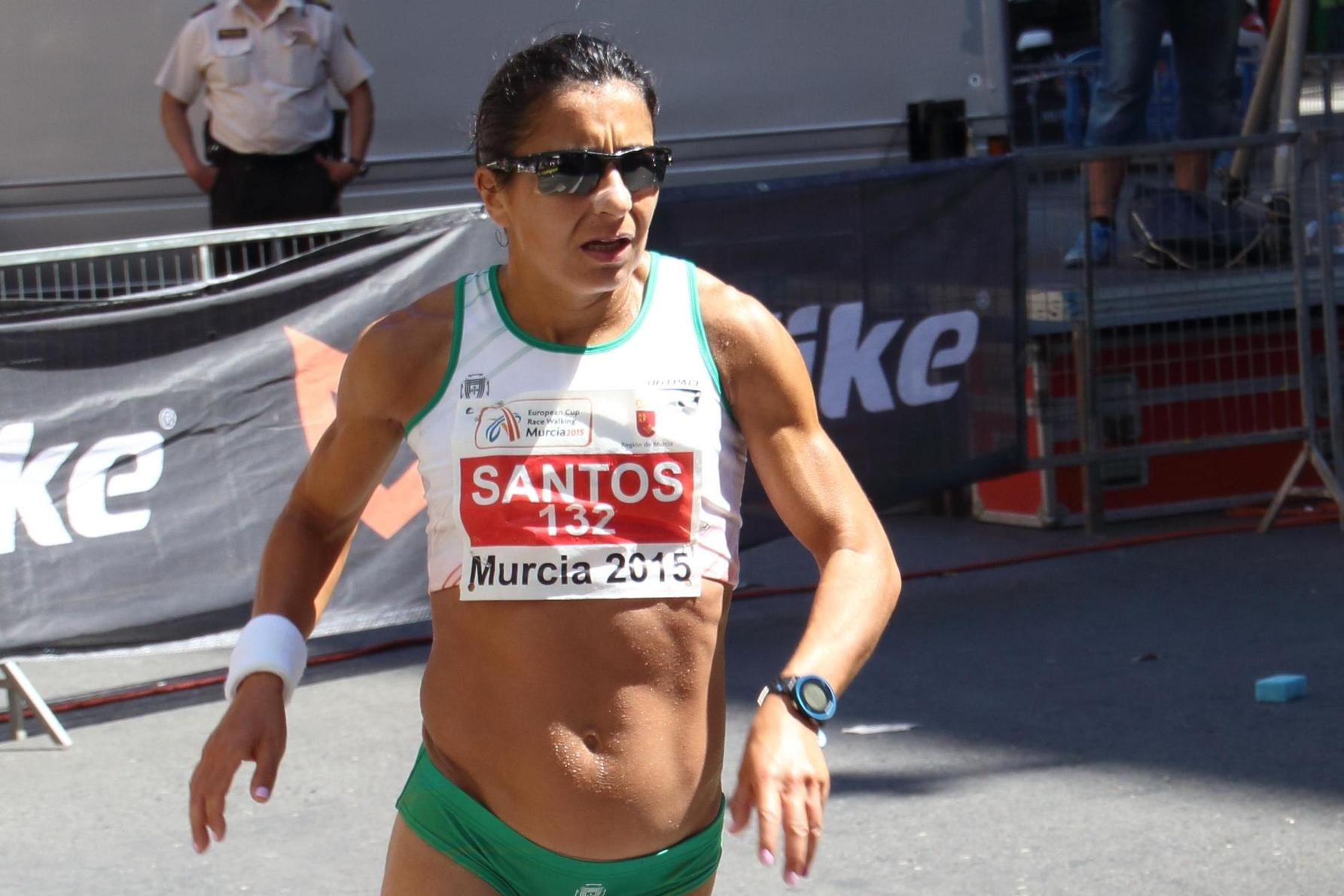 Vera Santos, portuguese race walker, in the European Cup Race Walking 2015 (Murcia, Spain).